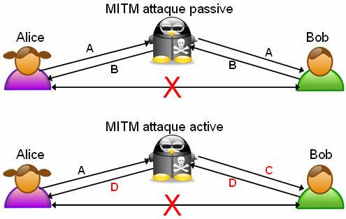 Attaque Man In The Middle